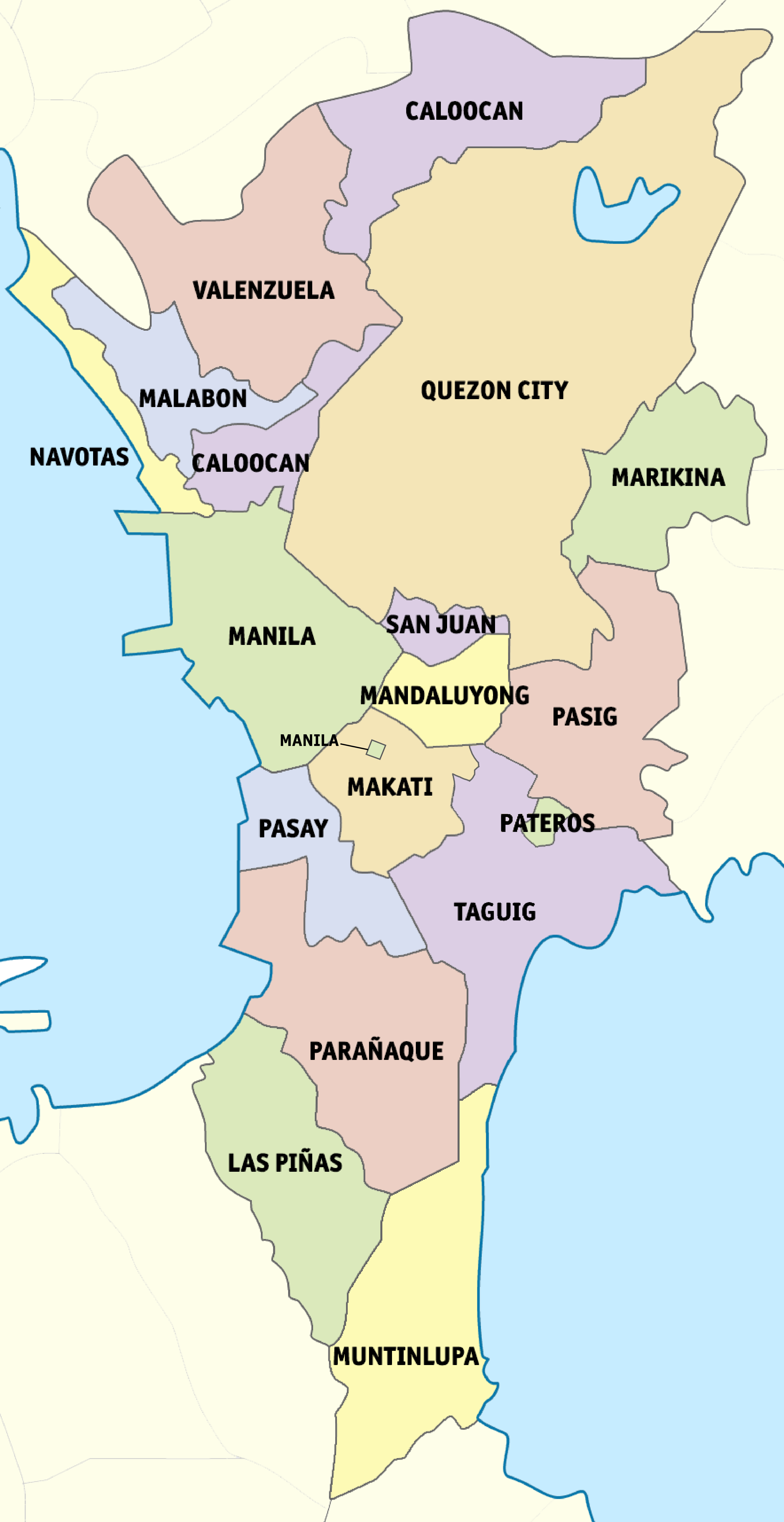 Political map of Metro Manila, Philippines